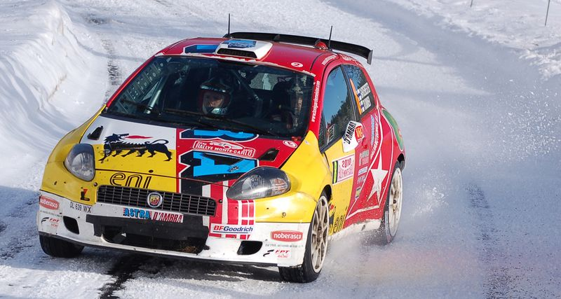 Gardemeister in Rallye Monte-Carlo 2010